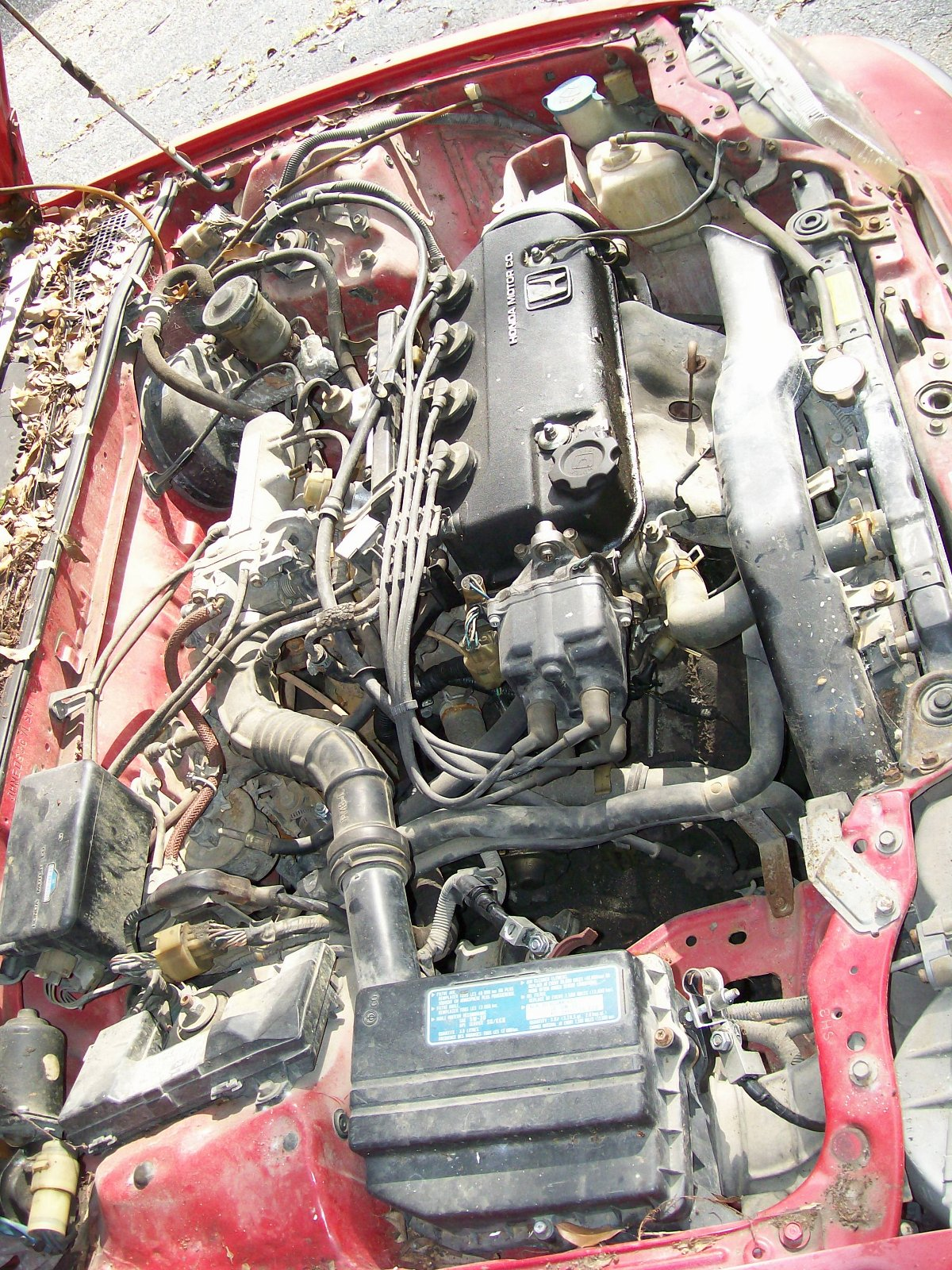 D15B6, 312,000 miles